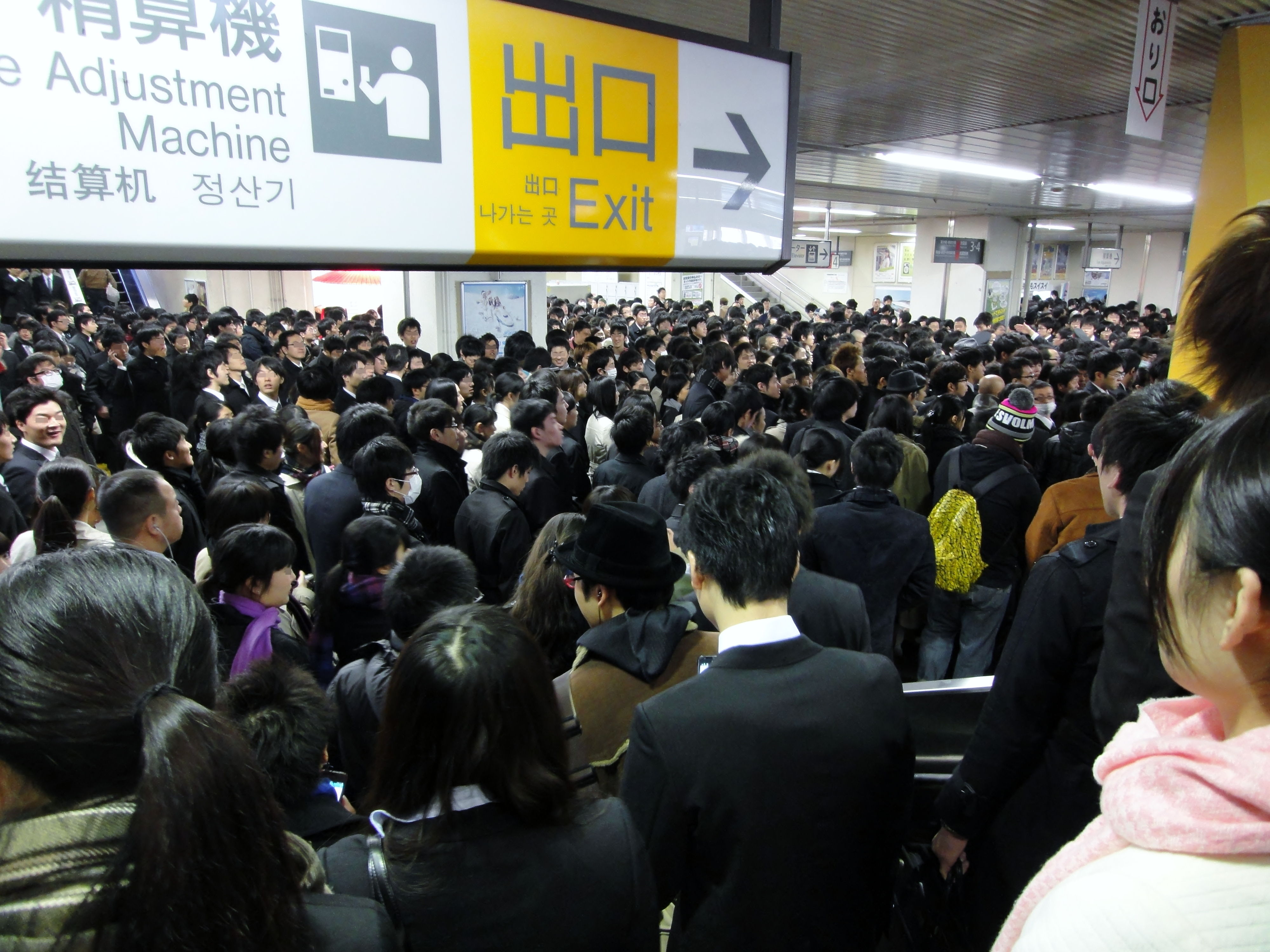 Rush hour in Japan (Kaihin-Makuhari Station)